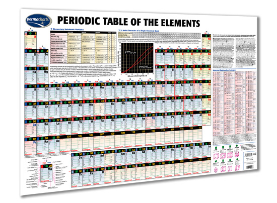 An image of the quick reference chart "Periodic Table" by Permacharts.